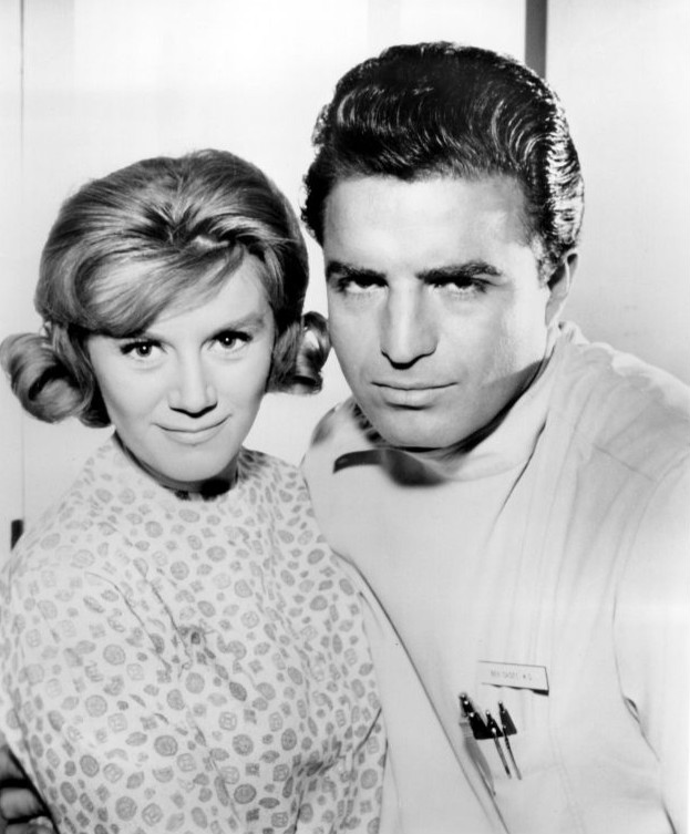 Photo of Kathleen Nolan in a guest starring role and Vincent Edwards as Ben Casey from the television program Ben Casey.